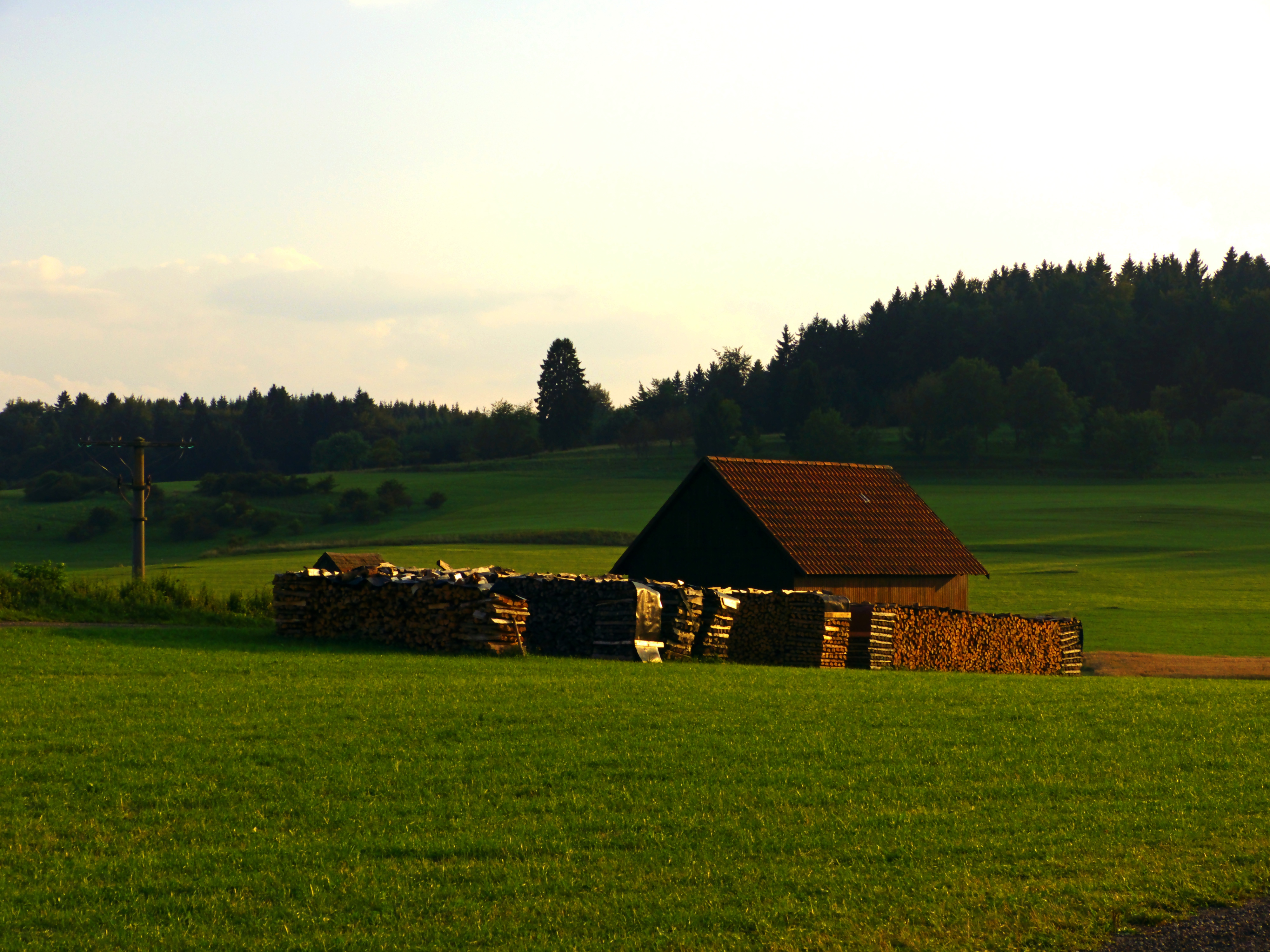 Prepared For Next Winter